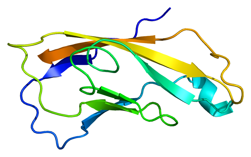 Structure of the CDH2 protein. Based on PyMOL rendering of PDB 1ncg.